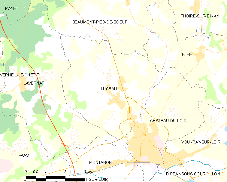 Map of French municipality